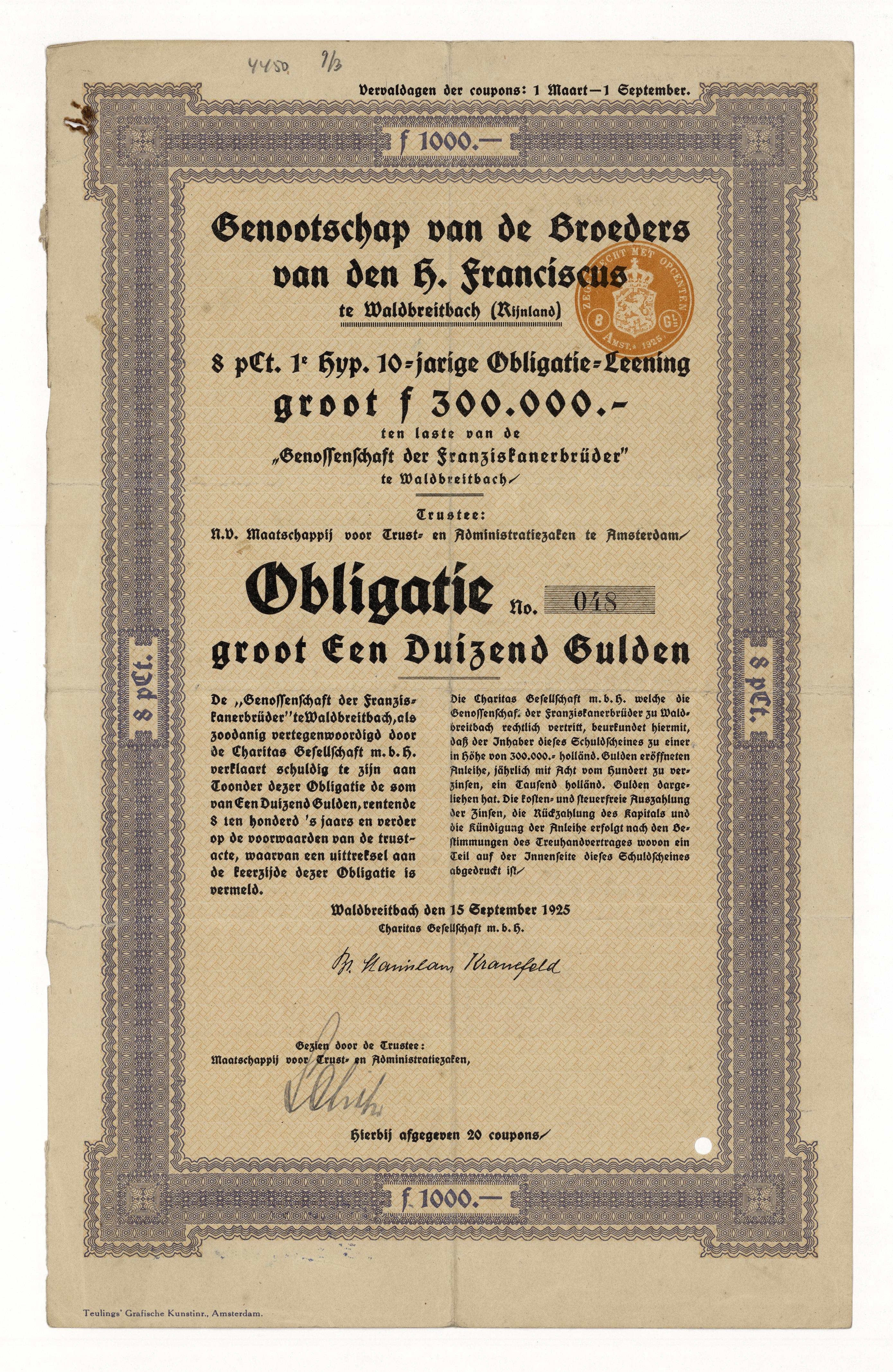 Bond of the Genossenschaft der Franziskanerbrüder, issued 15. September 1925